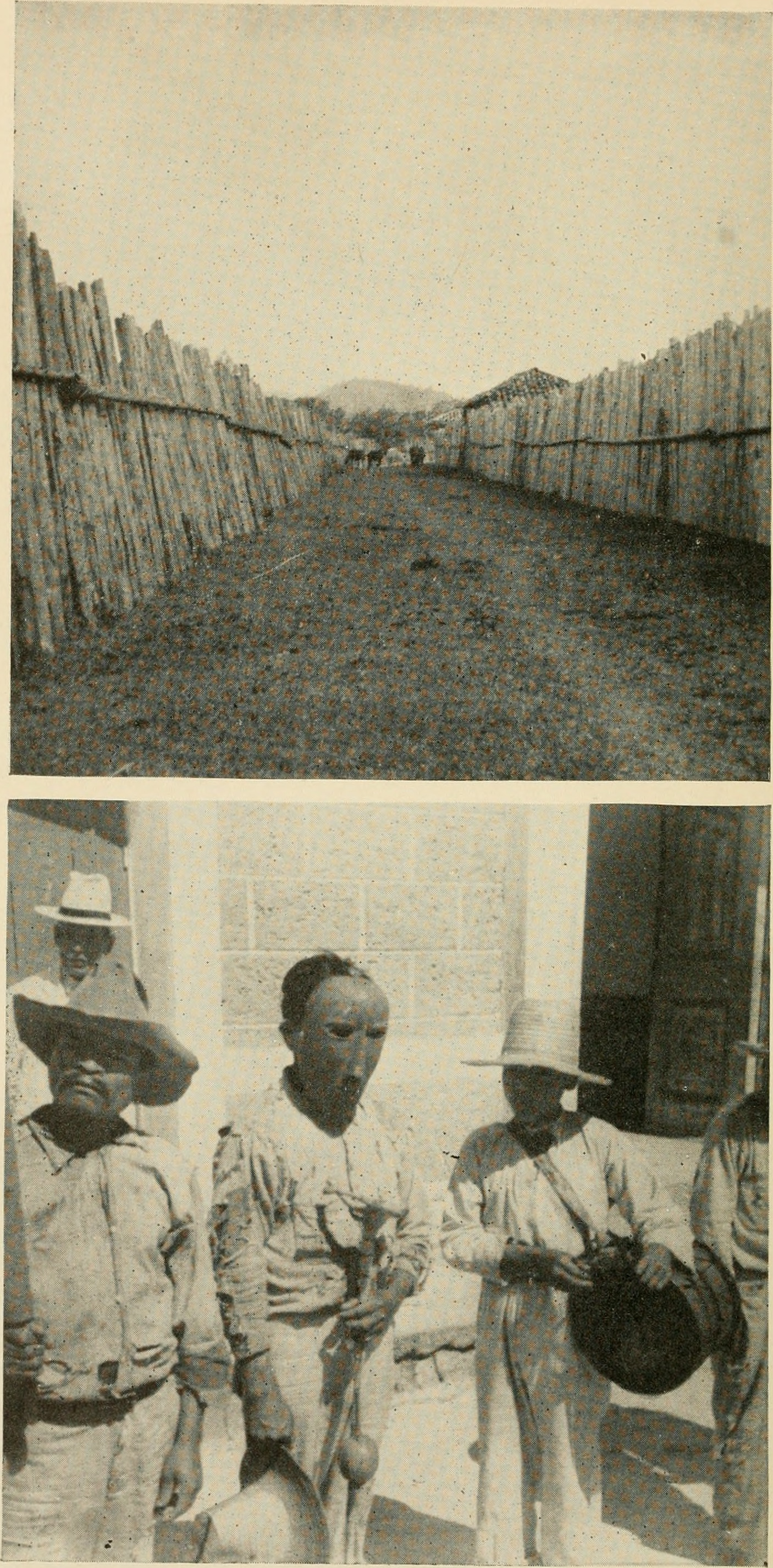 Title: Bulletin Year: 1901 (1900s) Authors: Smithsonian Institution. Bureau of American Ethnology Subjects: Ethnology Publisher: Washington : G. P. O. Text Appearing Before Image: ' Text Appearing After Image: Plate 34.—Lenca Indians. Top: Typical Intibucd fences. Bottom: Wearing a gourd mask at dance of festival of the patron saint of the town. (Courtesy Doris Stone.)